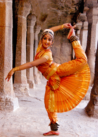 A dancer of Sri Devi Nrithyalaya performing one of the Karanas (key poses) of Natya Yoga.